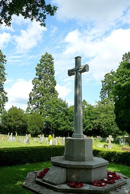 Burghfield war memorial This is within the churchyard of St. Mary's church. The northern part of the graveyard can be seen behind.